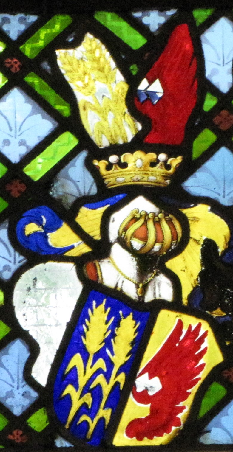 Coat of arms of the Ed;er von Paepcke family. stained glass window in St. Nicolai, Dassow